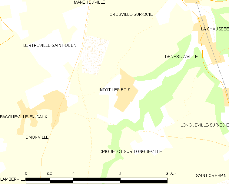 Map of French municipality Lintot-les-Bois